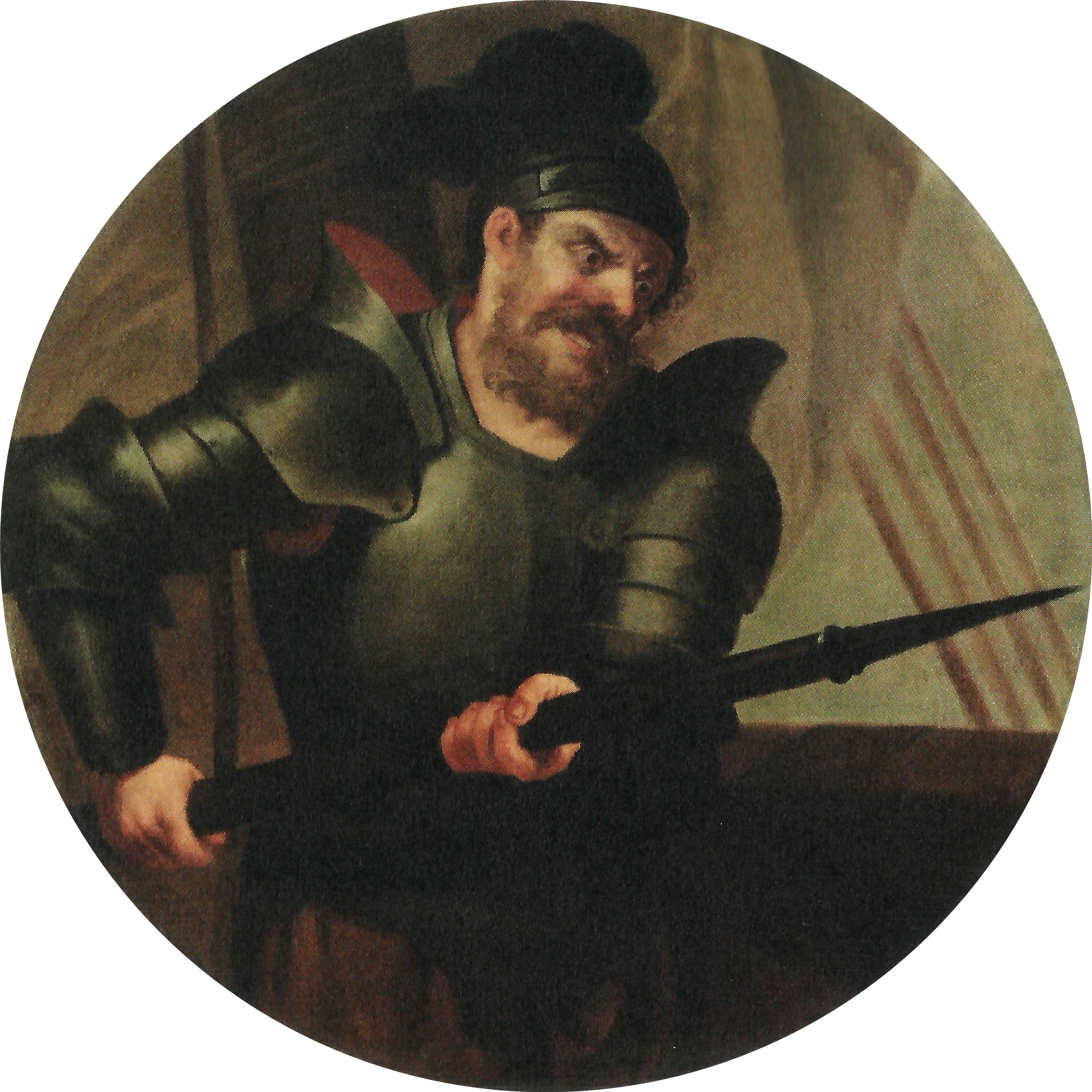 Portrait of João Rodrigues de Sá, called "Sá of the Galleys" (c. 1750). Private collection of Sebastião de Lencastre de Castro e Lemos.